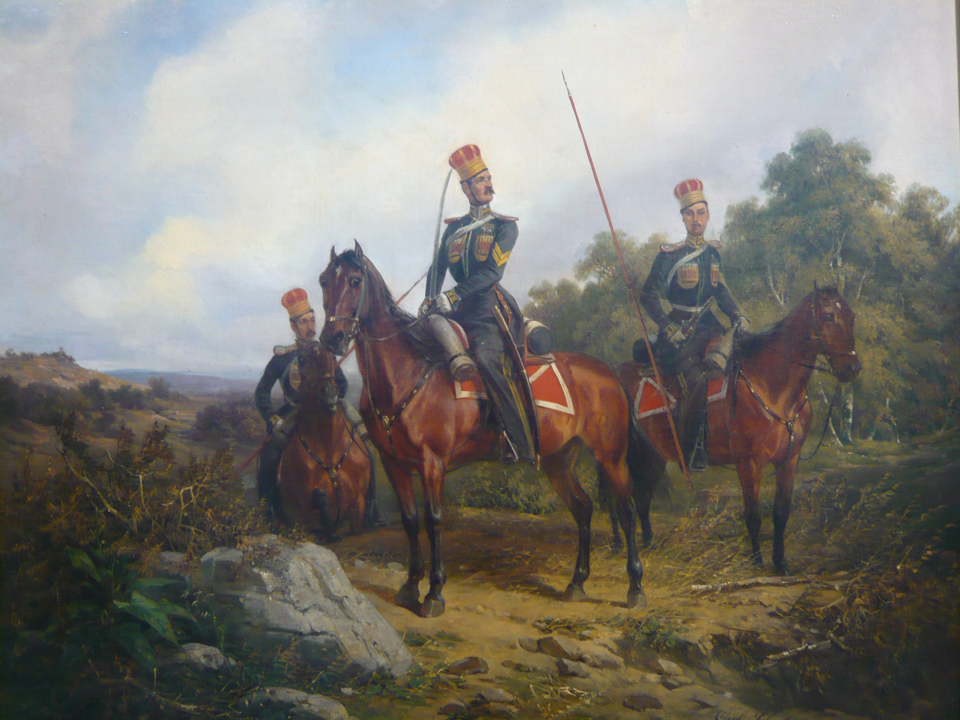 The ranks of the Crimean Tatar squadron of the Russian Imperial Guard, the artist - KF Schulz, 1850.